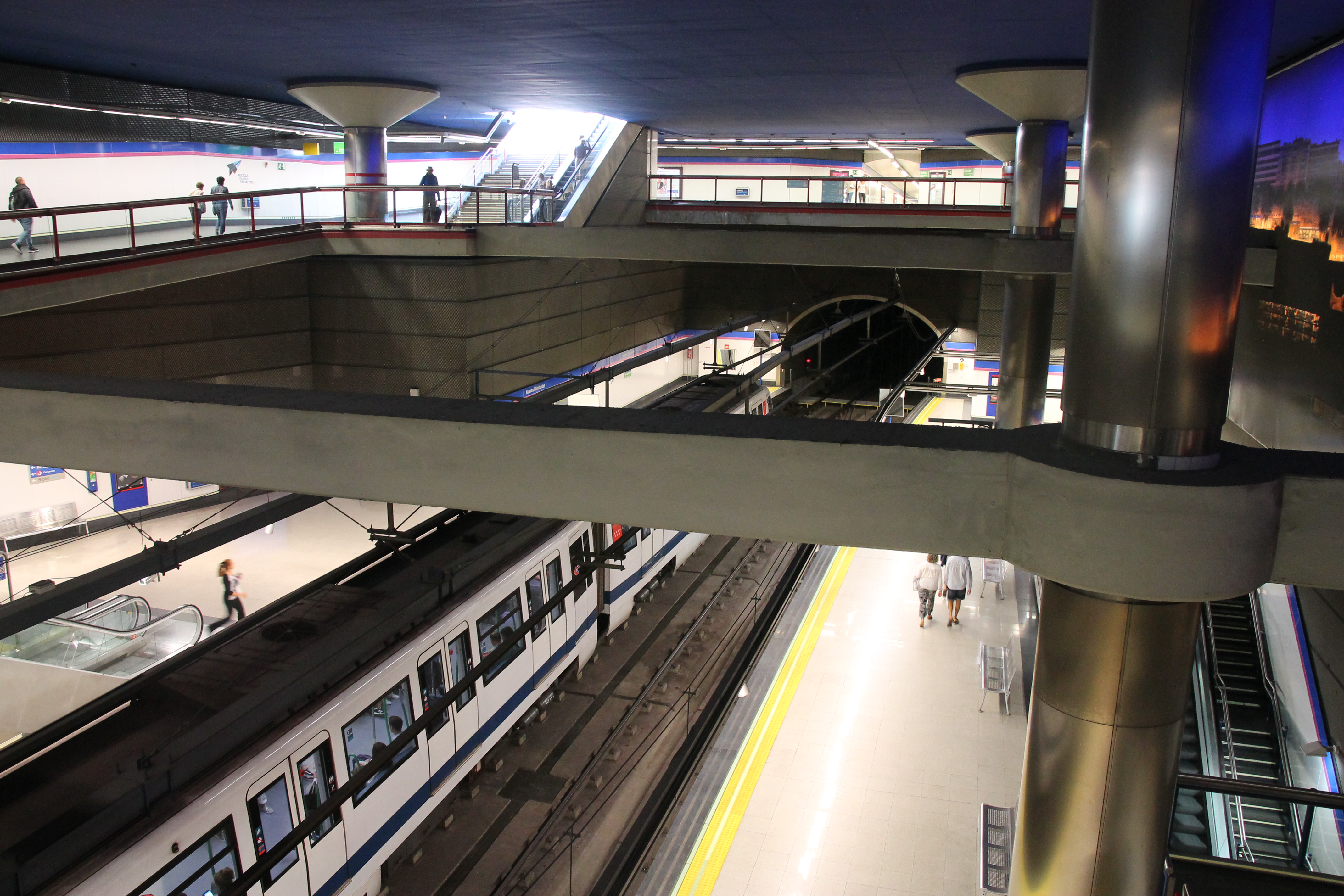 Platform of the Nuevos Ministerios metro station, line 8, Madrid